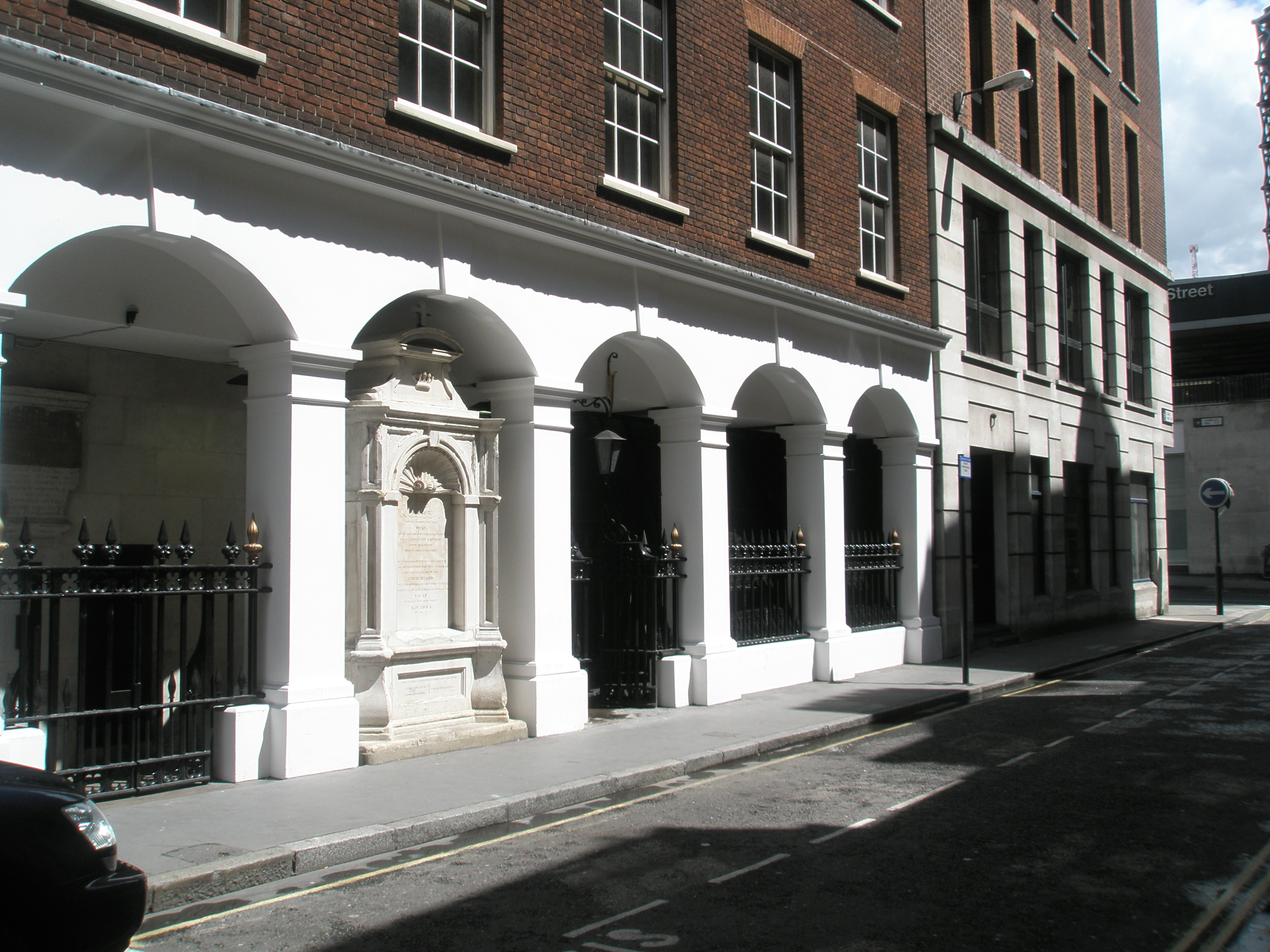 Cloak Lane, City of London